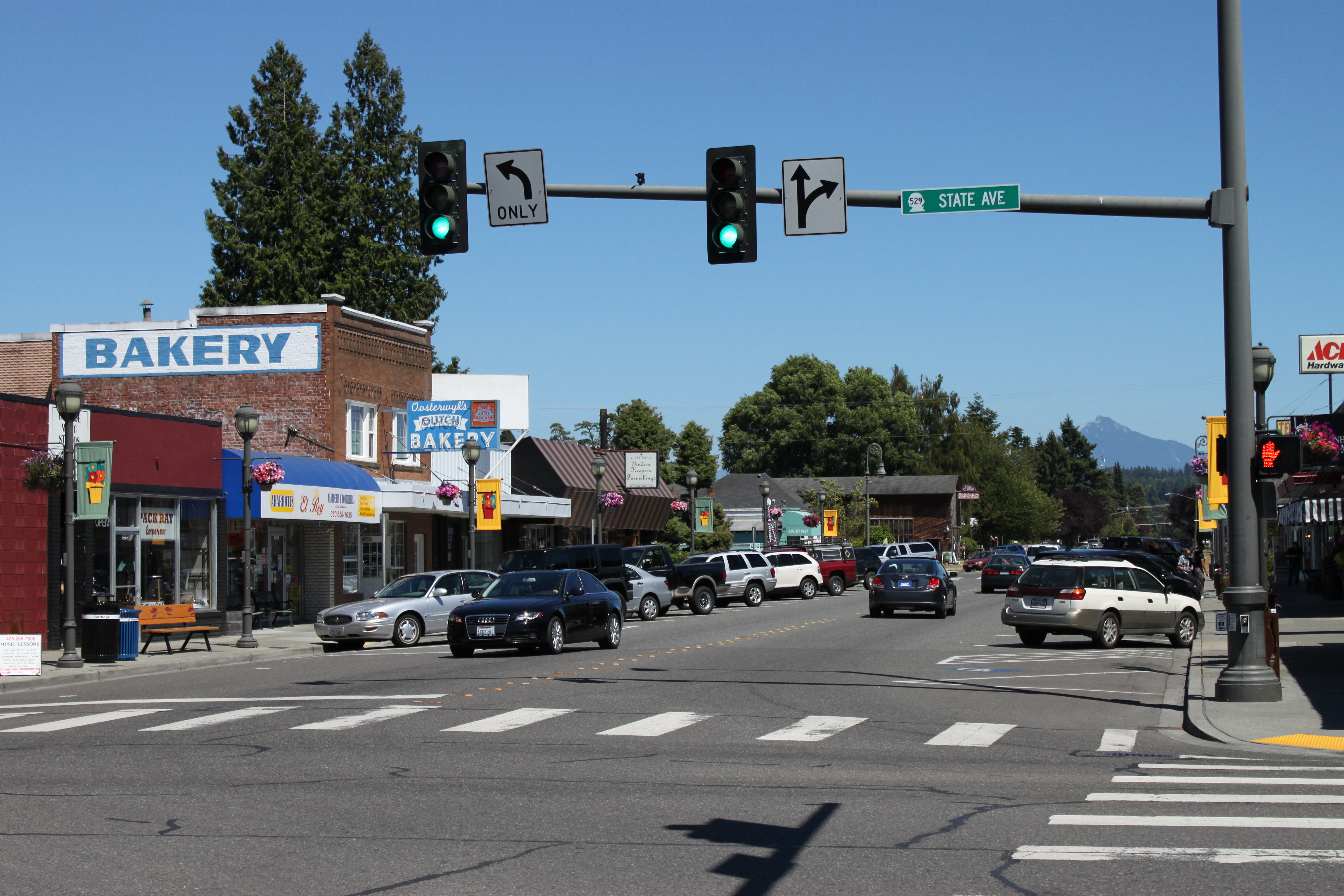 Looking east on 3rd Street in Downtown Marysville, Washington, from State Avenue.